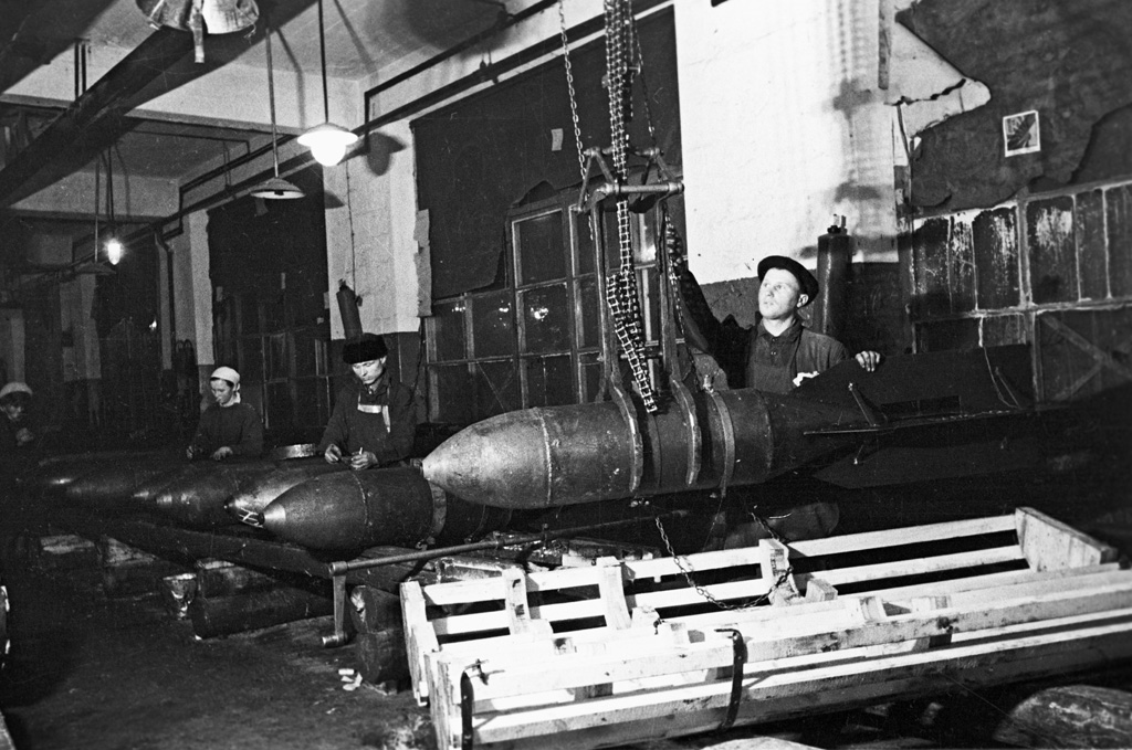 “Manufacturing airbombs at Moscow plant”. Manufacturing airbombs at one of Moscow plants during the 1941-1945 Great Patriotic War.